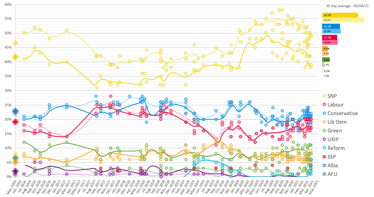 Opinion polling for the next Scottish Parliament election with average 30 day trendline. Semi-transparent lines represent the constituency vote, full lines represent the regional vote.